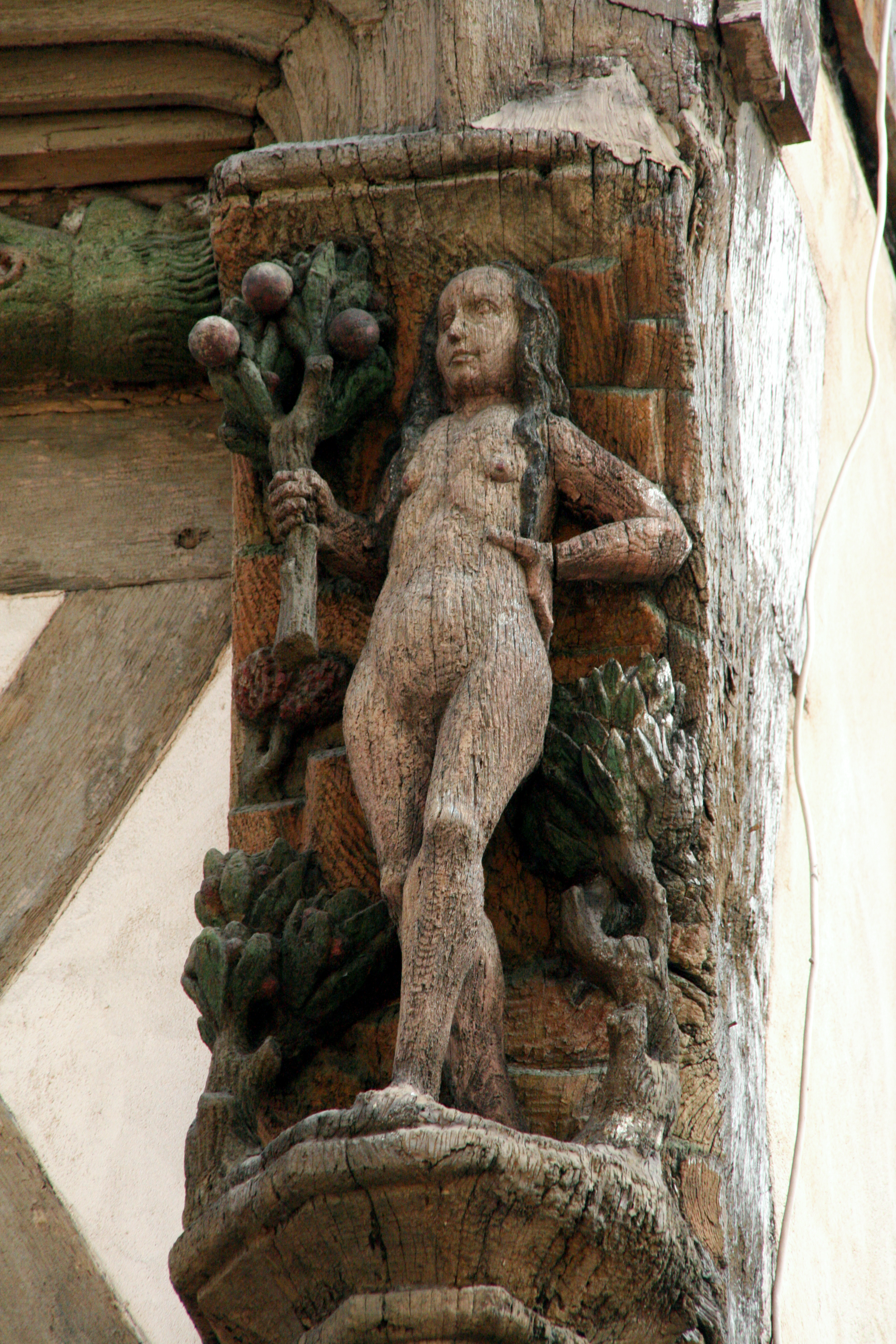 High relief of Eve on the front of the medieval house "Maison Desprez", also named "House of Adam and Eve", Angers, Maine-et-Loire, Pays de la Loire, France.